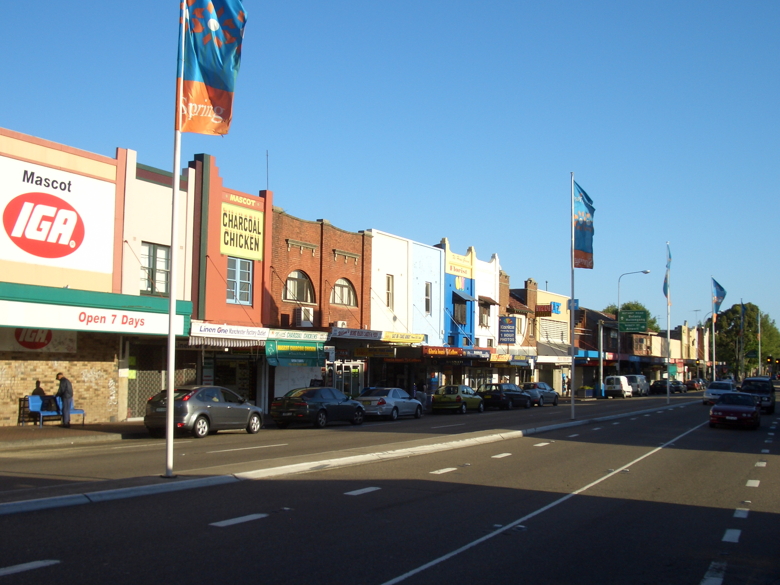 Mascot, Sydney